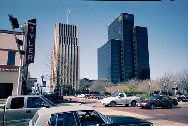 Tyler, TX Skyline